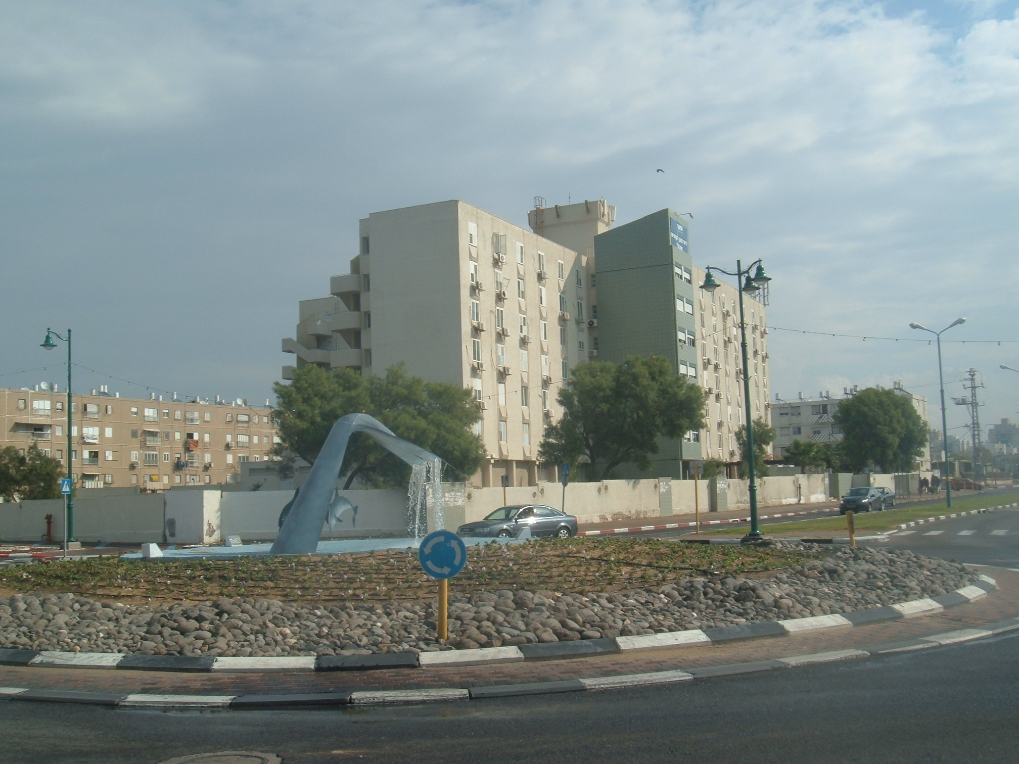 Zahal st. in Kiryat Yam רח' צה"ל בקריית ים